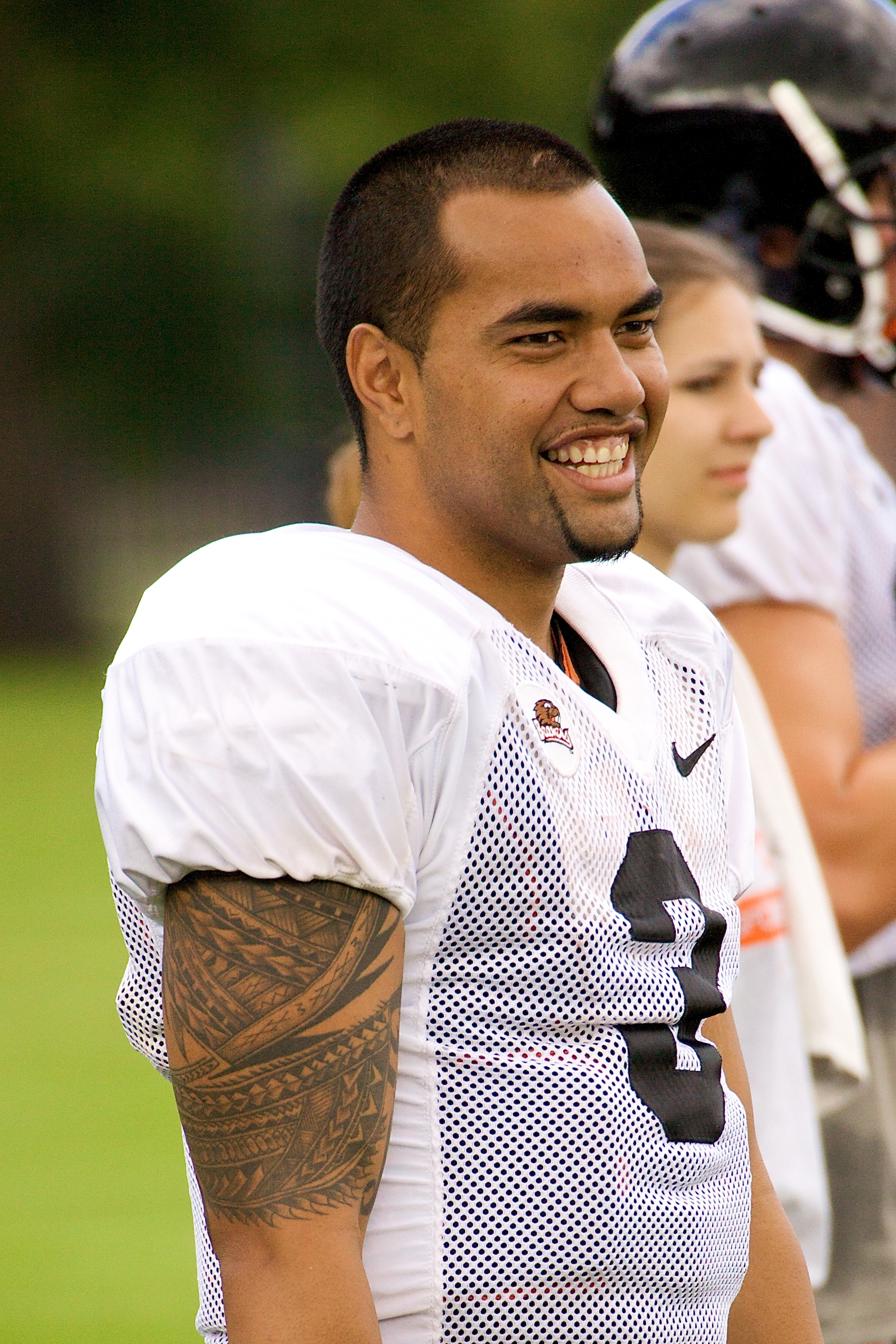 Still watching his shoulder, Lyle Moevao smiles during Fall Camp 2009.